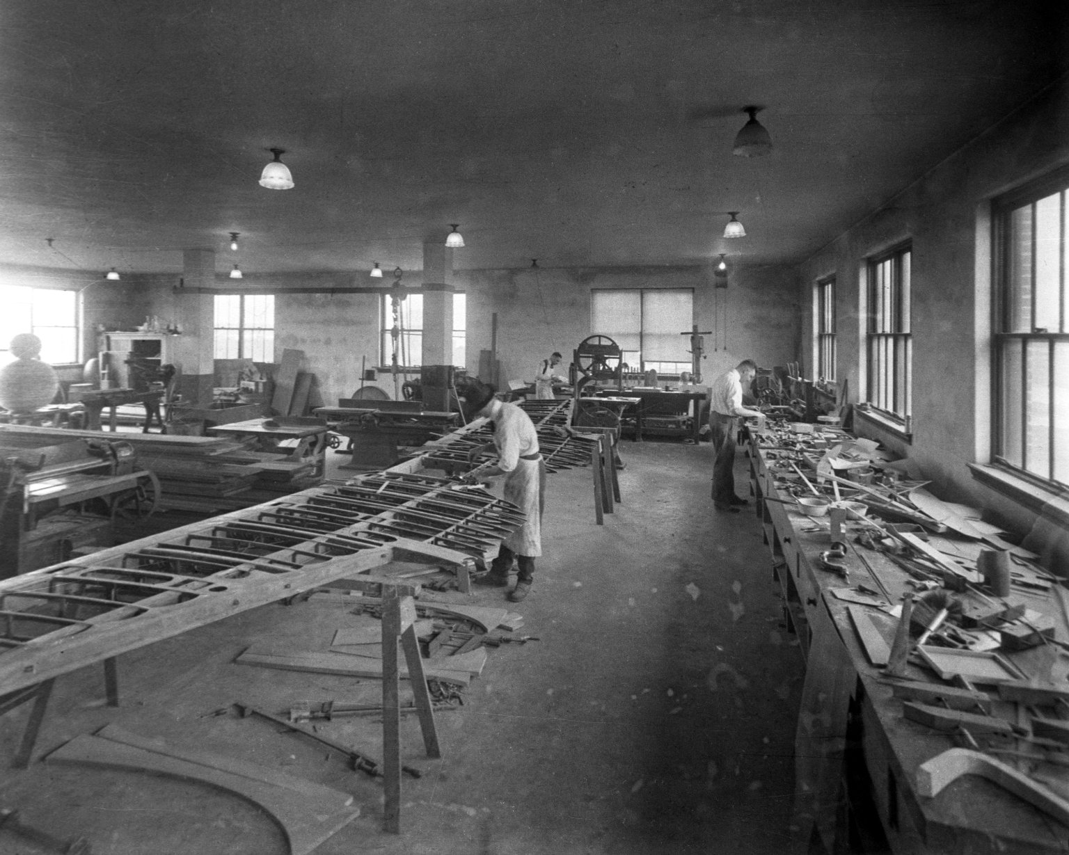 Workmen in the patternmakers' shop manufacture a wing skeleton for a Thomas-Morse MB-3 airplane for pressure distribution studies in flight. Image # : L-00184 Date: June 1, 1922